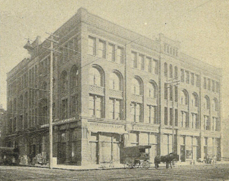 "Schwabacher Bros. - wholesale grocers," one of a pair of photos collectively captioned "Schwabacher Bros., the Big Grocers," from the brochure Seattle and the Orient (1900). The building still stands at the corner of Occidental Ave. S. (now the pedestrianized Occidental Mall) and Main Street. Because the pictures overlap weirdly in the original layout of this page, I've retouched the upper left corner.